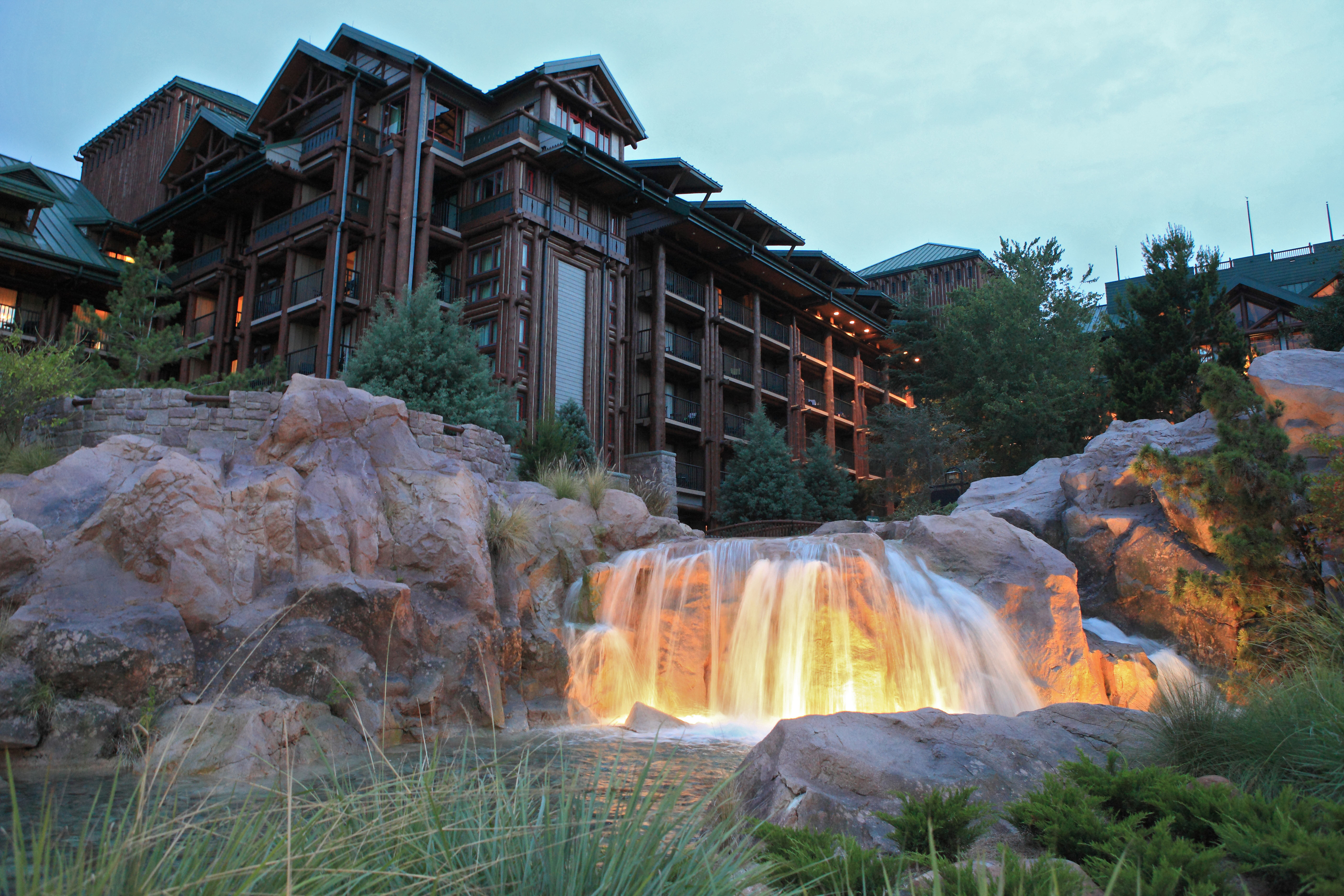 Creative commons photo from Flickr